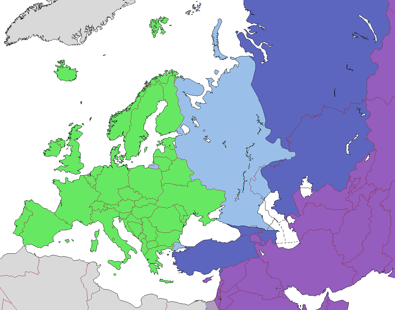 Map of Europe, indicating continental boundary and transcontinental states. States geographically in Europe (excepting overseas possessions; island states UK, Ireland, Iceland and Malta usually grouped with the European continent) Transcontinental states, European territory Transcontinental states, Asian territory Geographically Asian states (island states of Cyprus and Bahrain usually grouped with Asia geographically) Asian part of Egypt